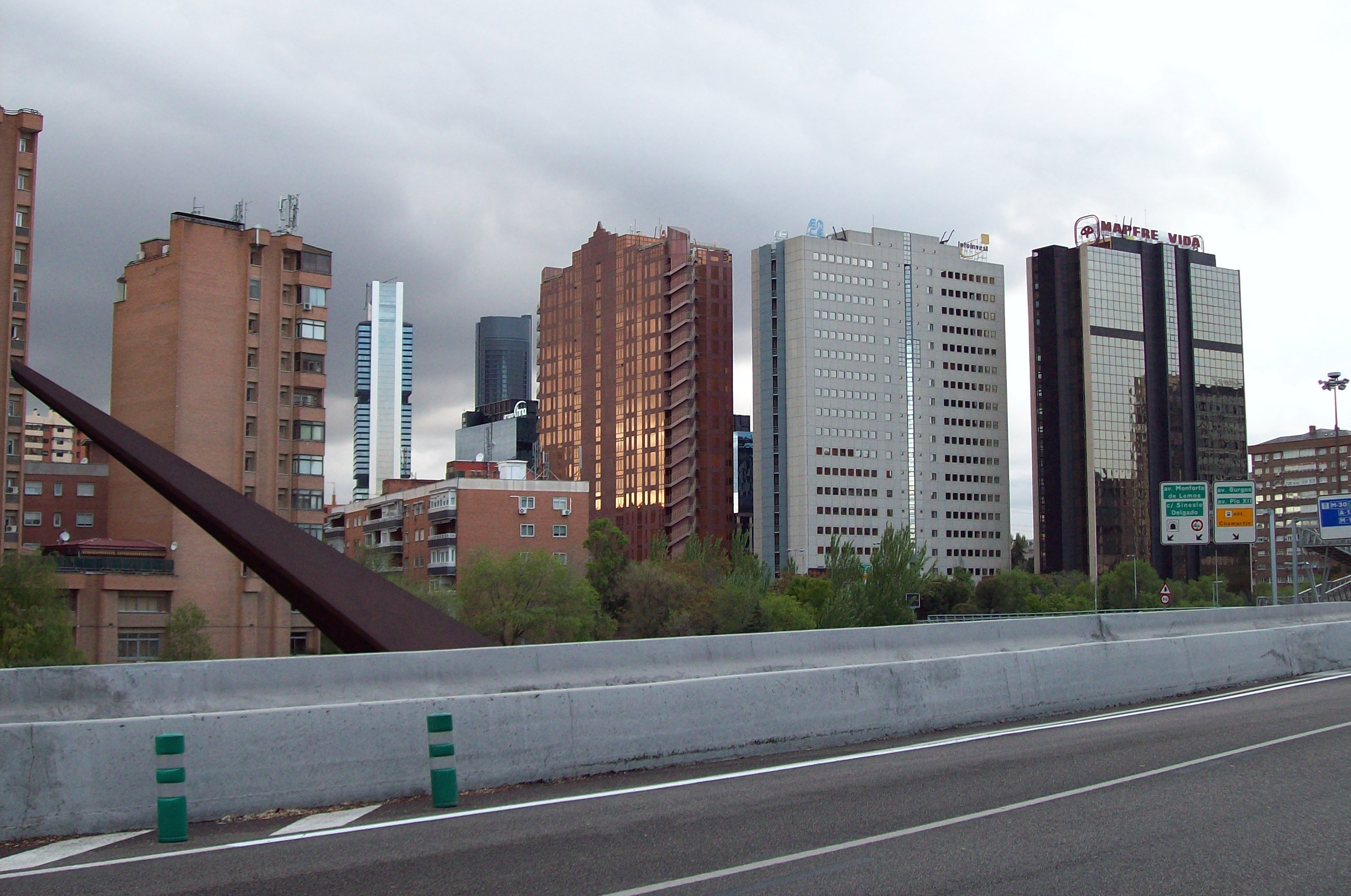 View of office buildings at 8, 10 and 12 Avenida de Burgos (avenue) in Chamartín district in Madrid (Spain) from M-30 ring highway.